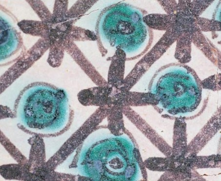 Fragment of tajador (plate) of ceramic enamelled and decorated in green and purple; 10 x 24 cm.; ca.1320-1360. Museo Provincial de Teruel (Spain).